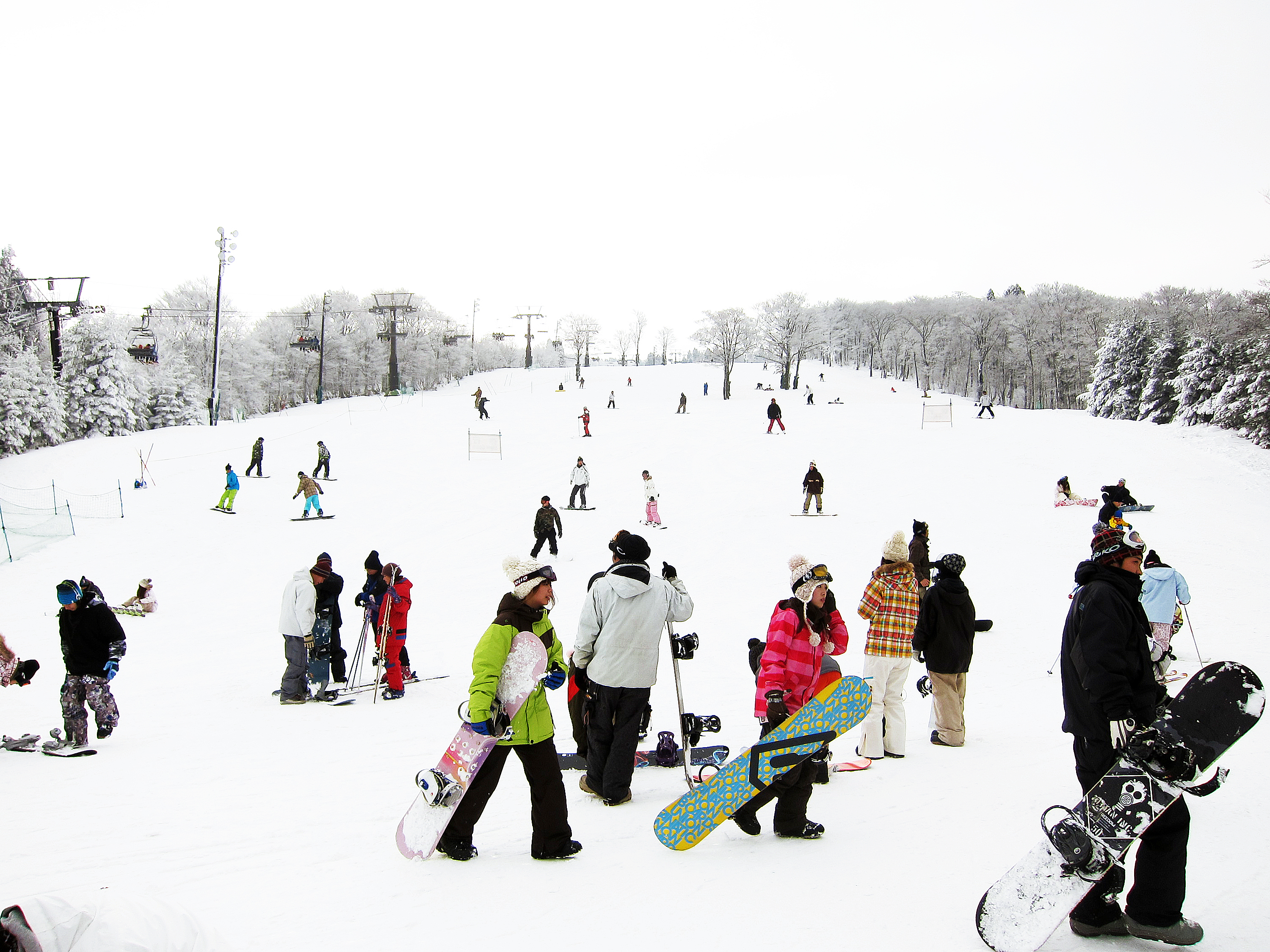 Mizuho Highland Mountain and Snow Resort patrons glide down a beginner’s slope Jan. 2. The resort offers runs for those who desire to cruise and slopes for the avid ski enthusiasts ready for speed.